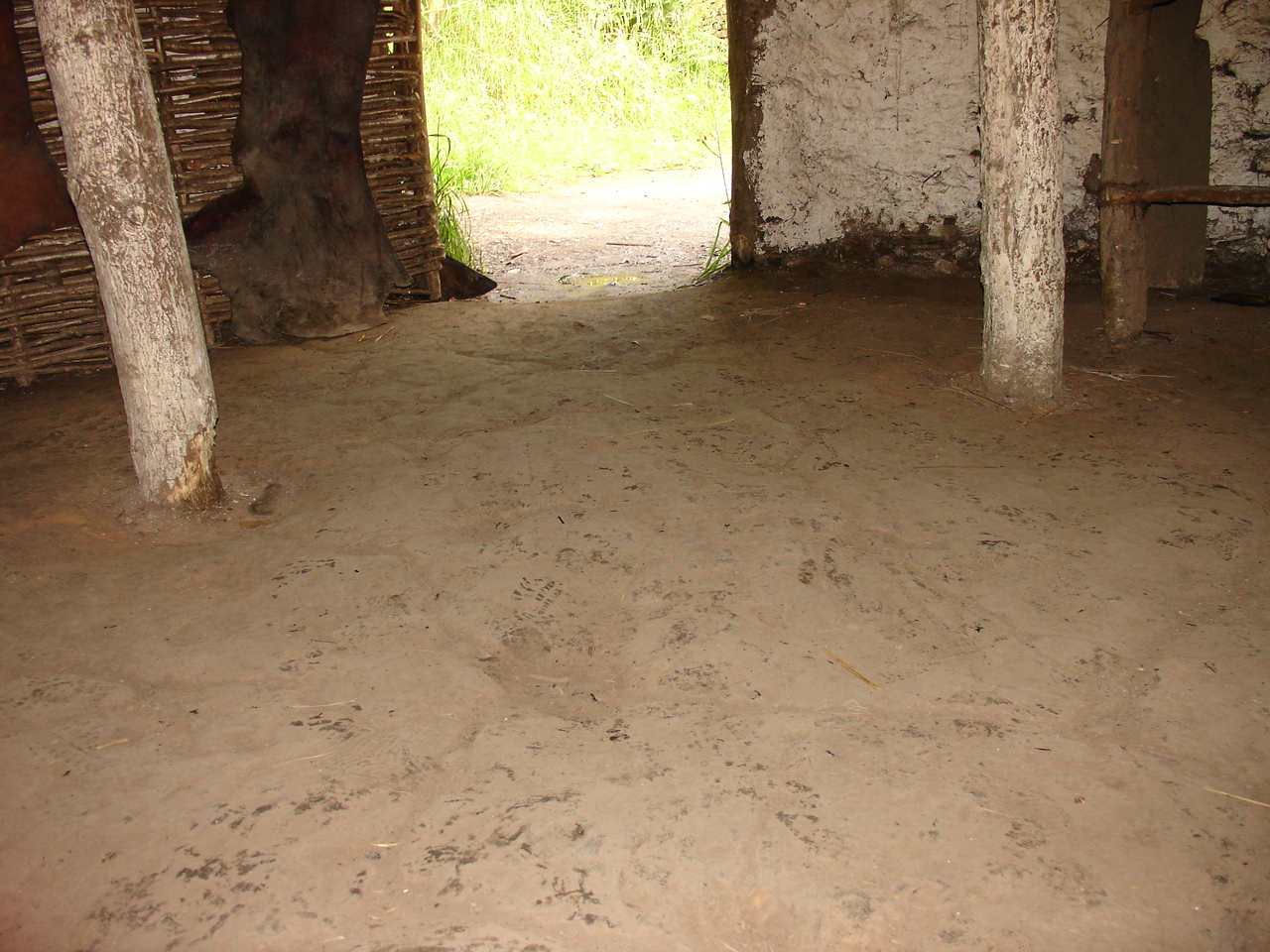 St. Fagans, National Museum Wales (Cardiff, UK): Floor in a Celtic hut.